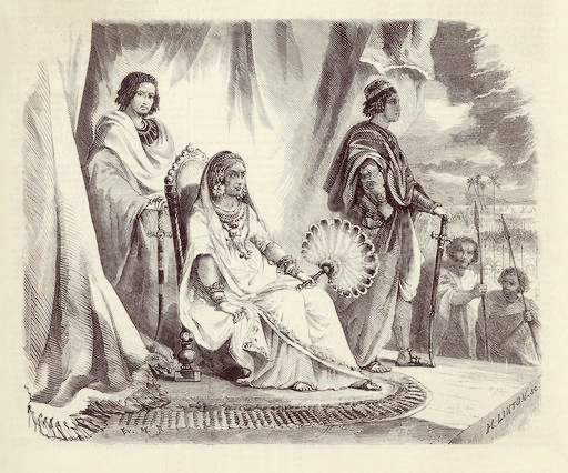 Ranavalo Manjaka, reine de Madagascar, et ses heritiers presomptifs. Wood engraving by H. Linton ca 1875. Light creases in upper image.